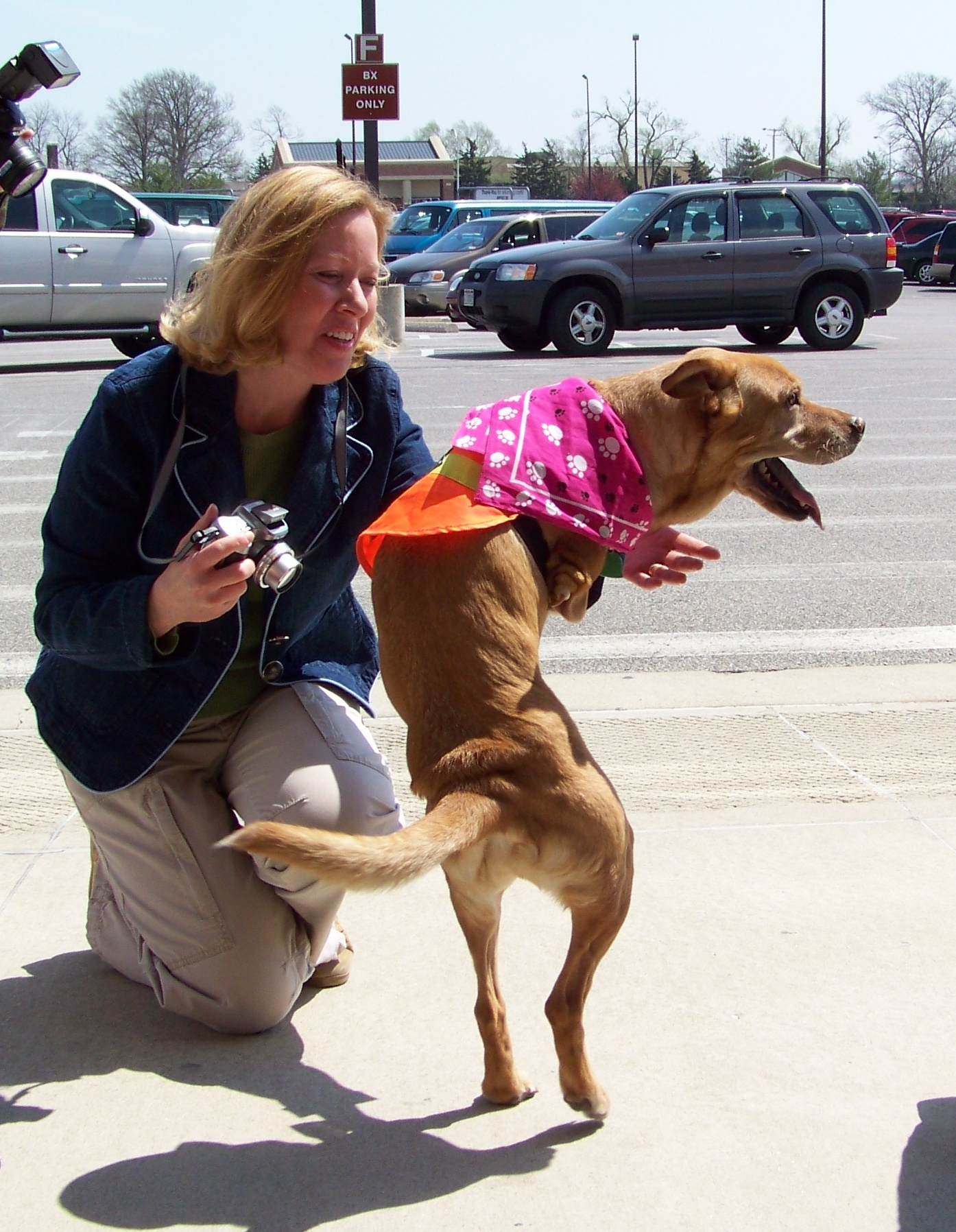 Faith, the two legged dog.